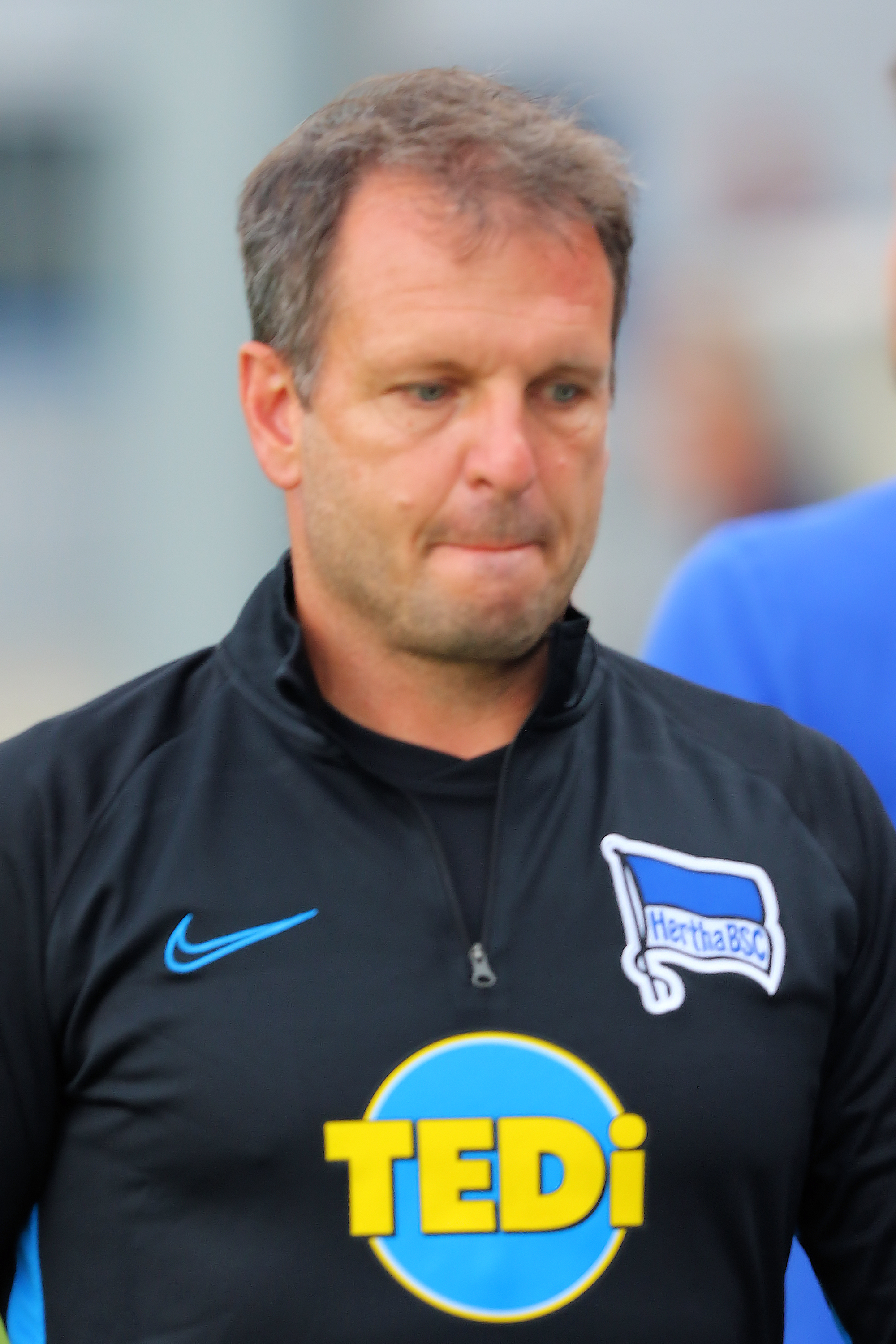 Friendly match Hertha BSC (blue-white shirts) vs. West Ham United (red-blue shirts) at 31-07-2019 3-5 (3-2) in the Sonnenseestadium in Ritzing. – The photo shows Mirko Dickhaut (assistentcoach of Hertha BSC).